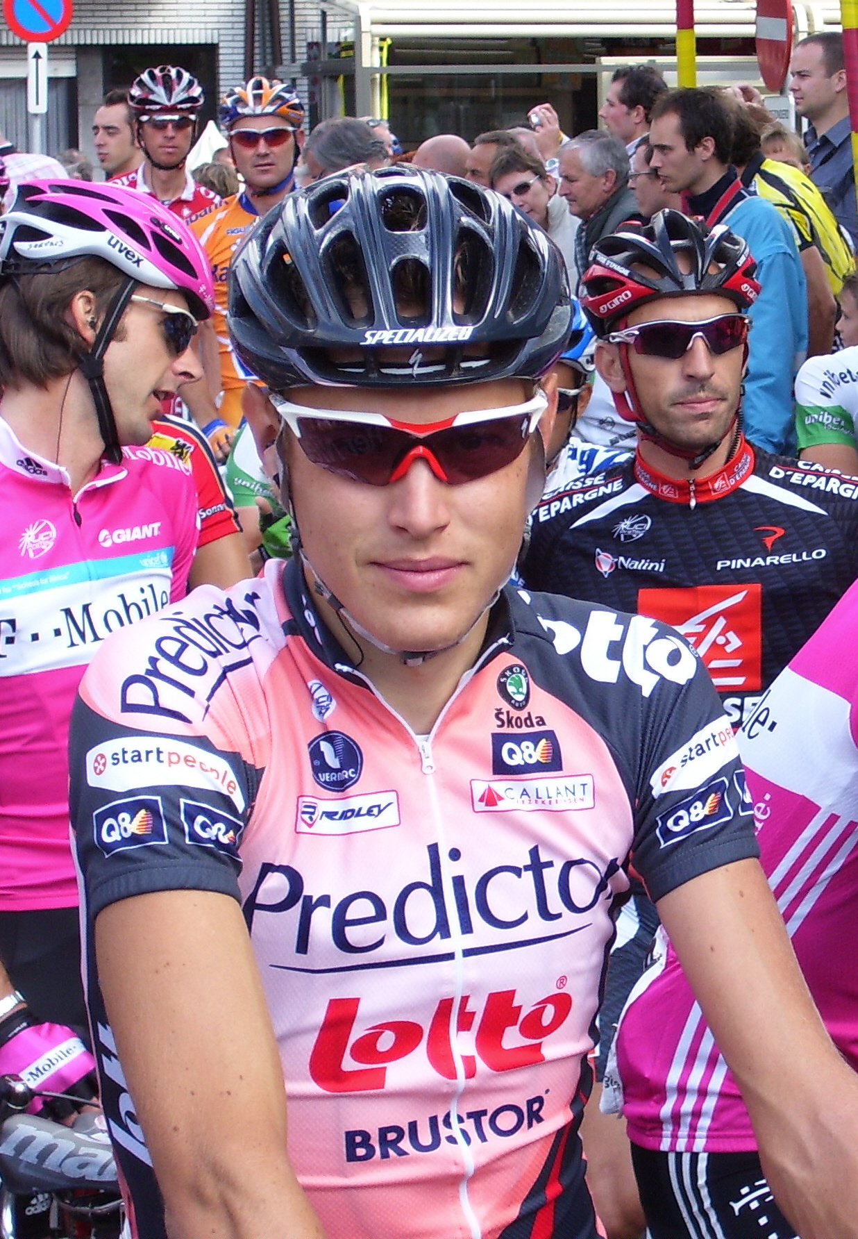 Olivier Kaisen Predictor Lotto